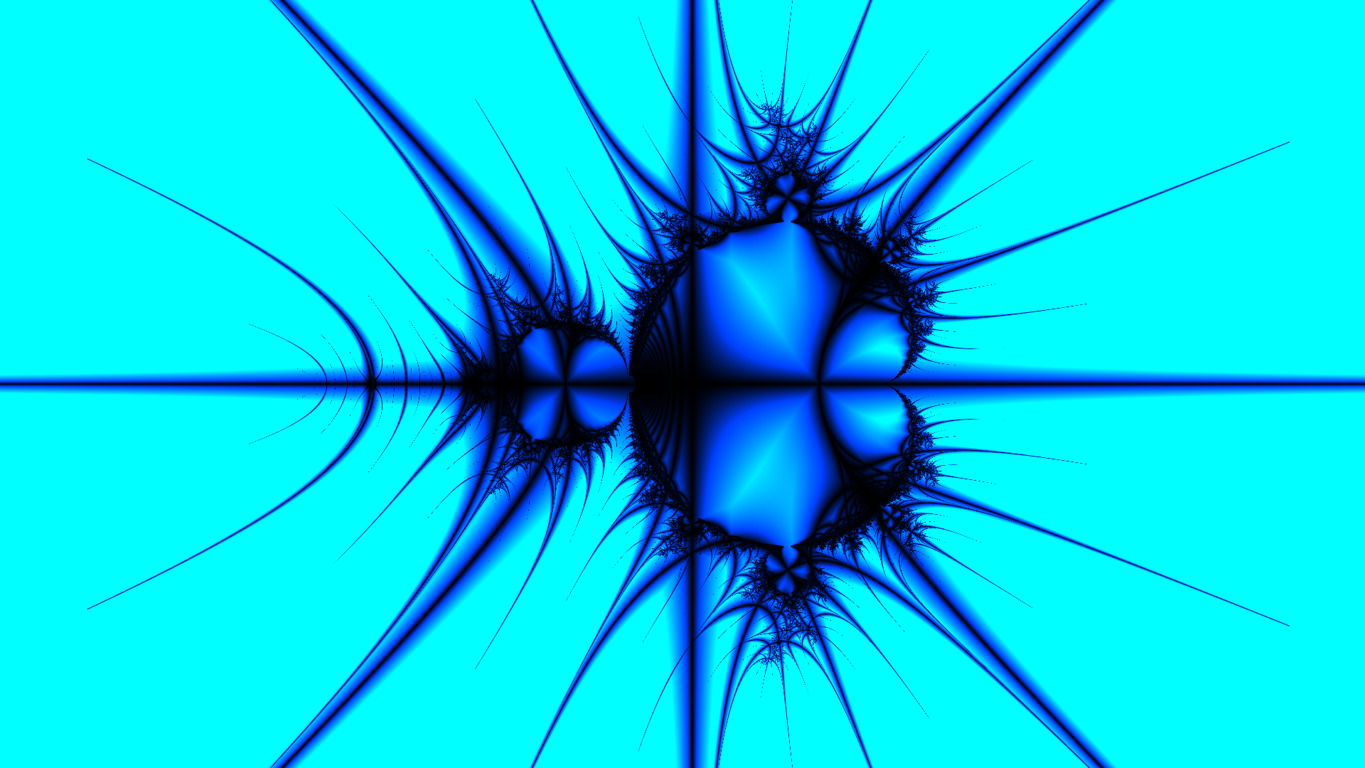 A Mandelbrot Set rendered using a Pickover Stalk made in Unity in a fragment shader using Cg.